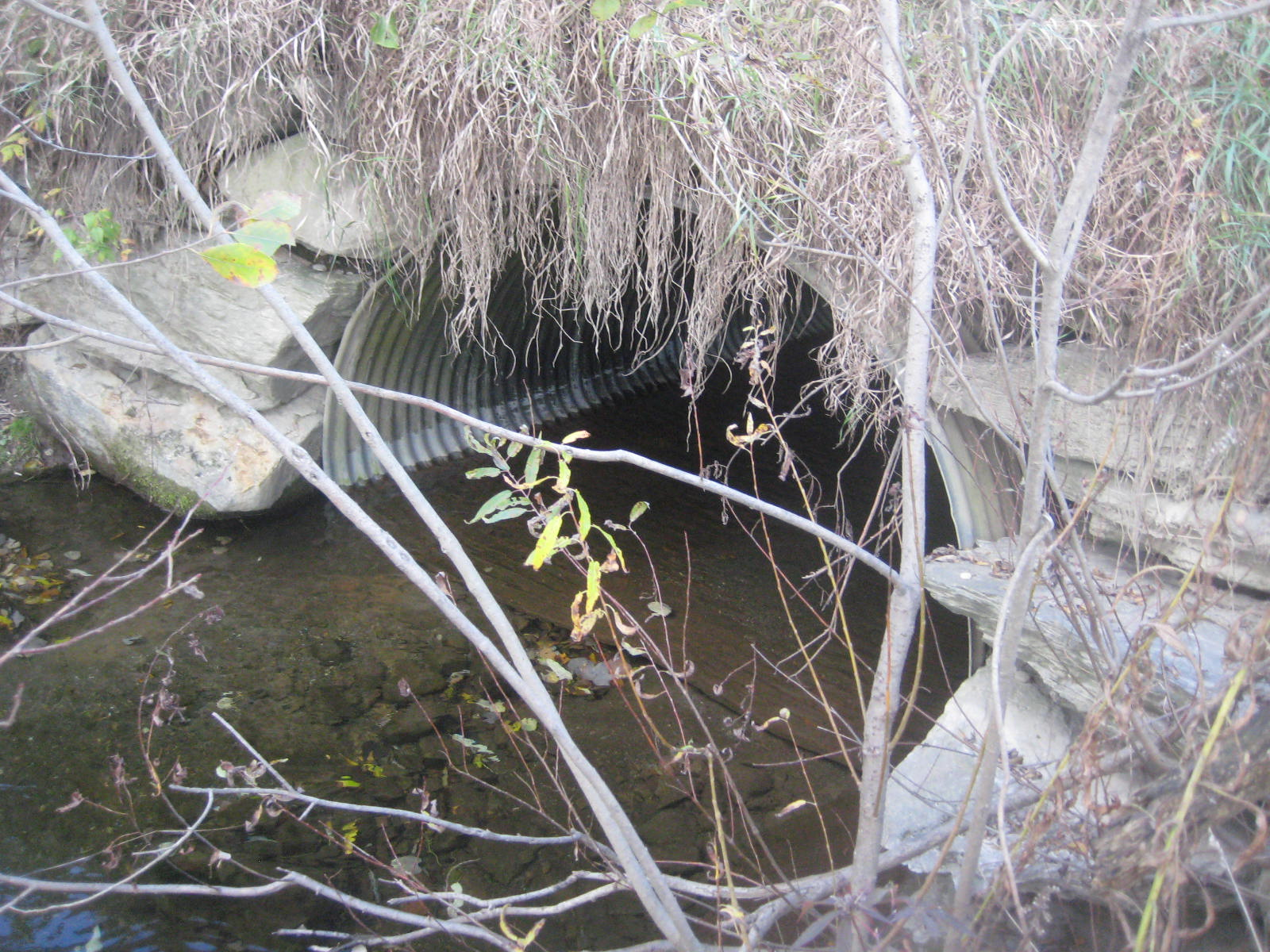 This squash bottom culvert connects wildlife corridors. Other information This culvert is aquatic organism passage friendly